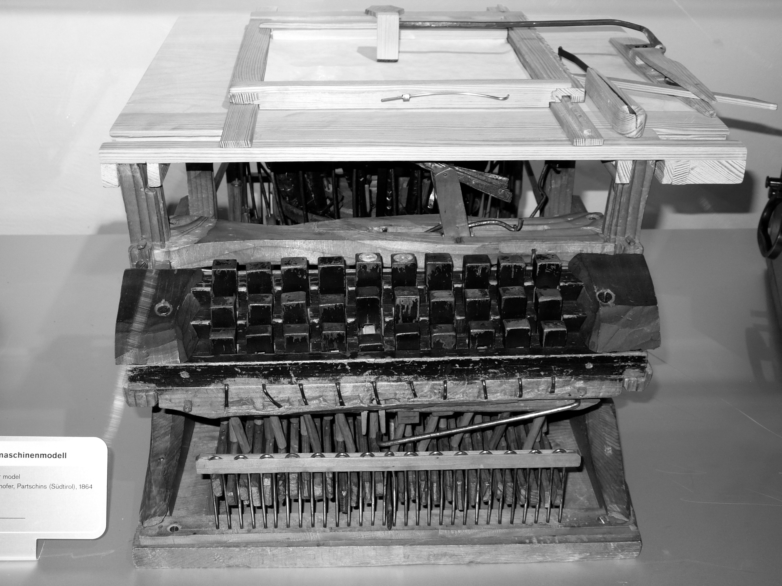 Typewriter built by Peter Mitterhofer at the Technisches Museum in Vienna